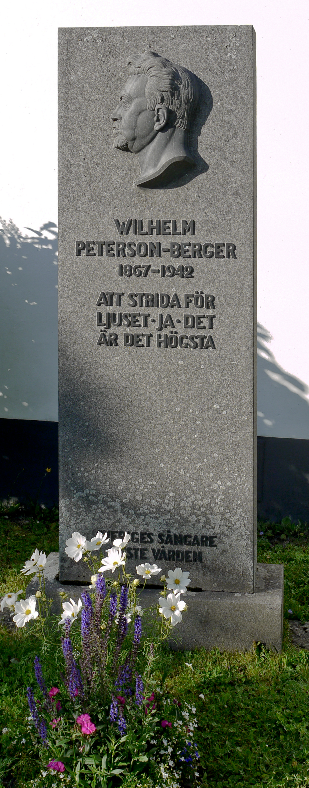 Frösö kyrka/church. Diocese of Härnösand. Östersund, Frösön, Sweden. Thombstone, Wilhelm Peterson-Berger.